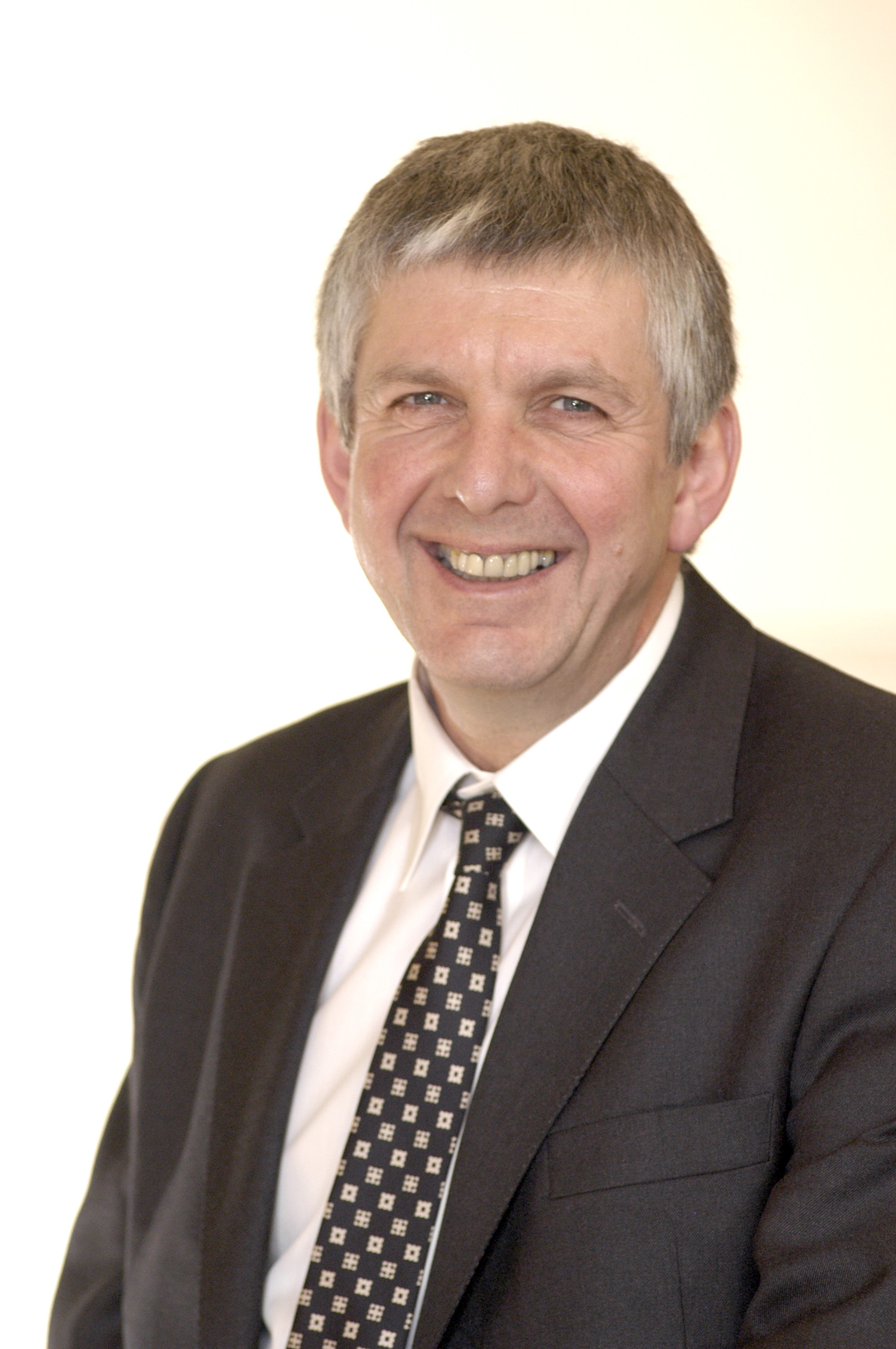 Head and shoulders portrait of Mr Dai Powell, chief executive officer of social enterprise (a type of charitab;le corporation) HCT Group, owner of CT Plus Limited, a British bus service and community transport provider